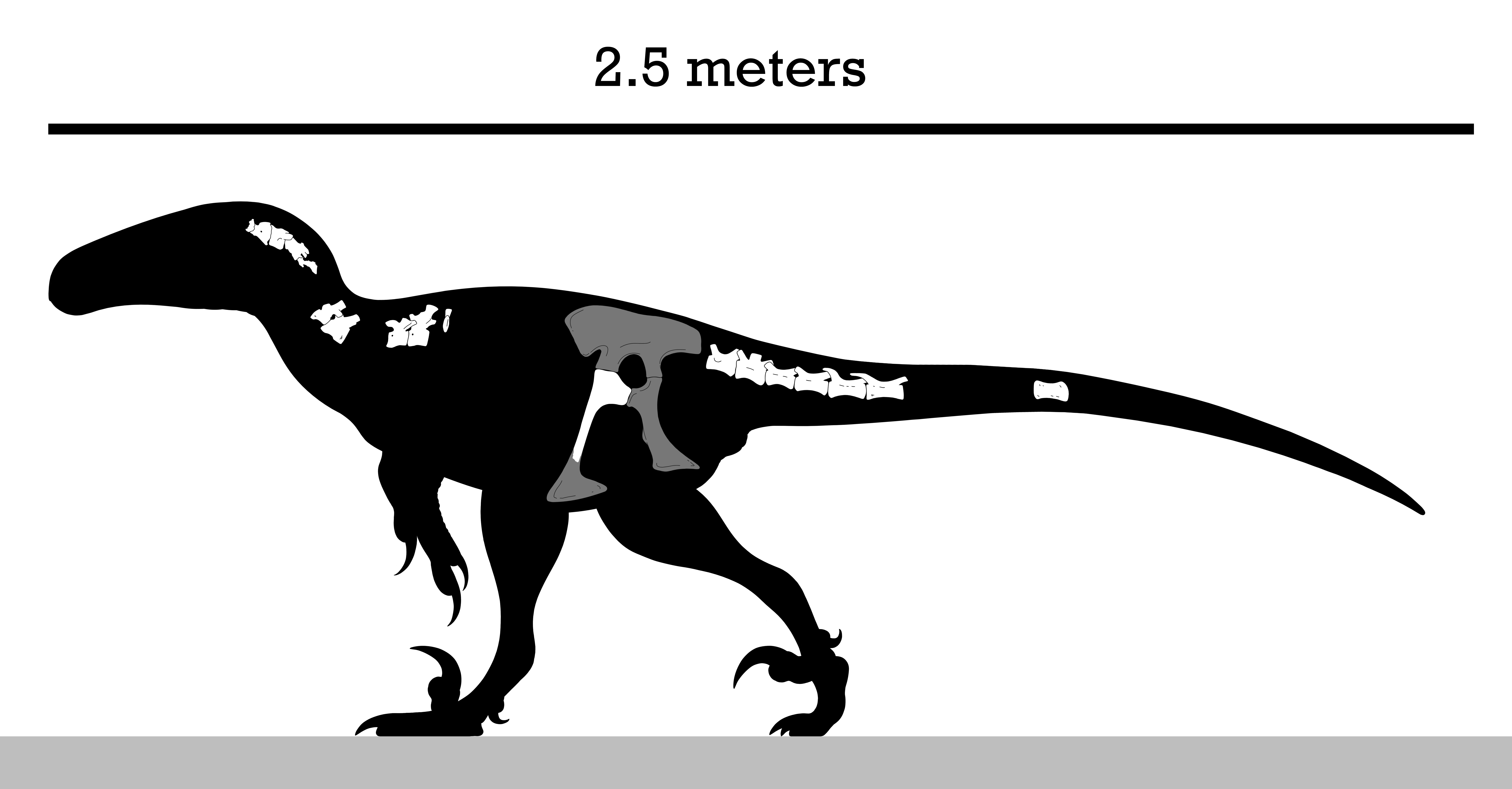 Skeletal composite of the holotype of the North American dromaeosaurids Yurgovuchia doellingi. The holotype UMNH VP 20211 consists of cervical, dorsal and caudal vertebrae. The preserved vertebrae are fused, indicating that the specimen is in fact, a fully grown animal and a separated genus from Utahraptor. Its length is estimated at 2.5 m (8.2 ft).[1] Color Key Known Unknown ___________________________________________________________________________________________________________